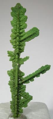 Copper, Mottramite Locality: Tsumeb, Otjikoto (Oshikoto) Region, Namibia (Locality at ) Size: miniature, 3.1 x 1.2 x .2 cm Mottramite ps. Copper Exceptional pseudomorph of Mottramite after dendritic Copper, of such elegance that the pics say it all. There is one weak bit in the middle that has been stabilized with a small dot of glue in the past (i.e. it could be repaired, as well). Now, the piece can be left as is, which I think is best for the sheer drama, or clipped at the stabilization spot in the middle and turned into two phenomenal and unique thumbnails....either way, a killer! Purchased from the Zweibels in 1976